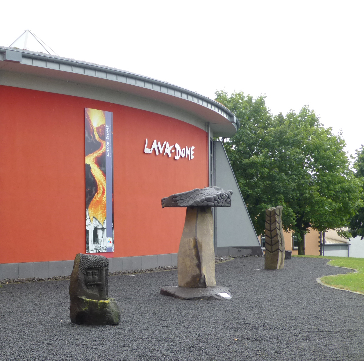 Museum Lava-Dome, illustration of the volcanism in the Eifel, and access to the basalt mine, Mendig, Mayen-Koblenz District.